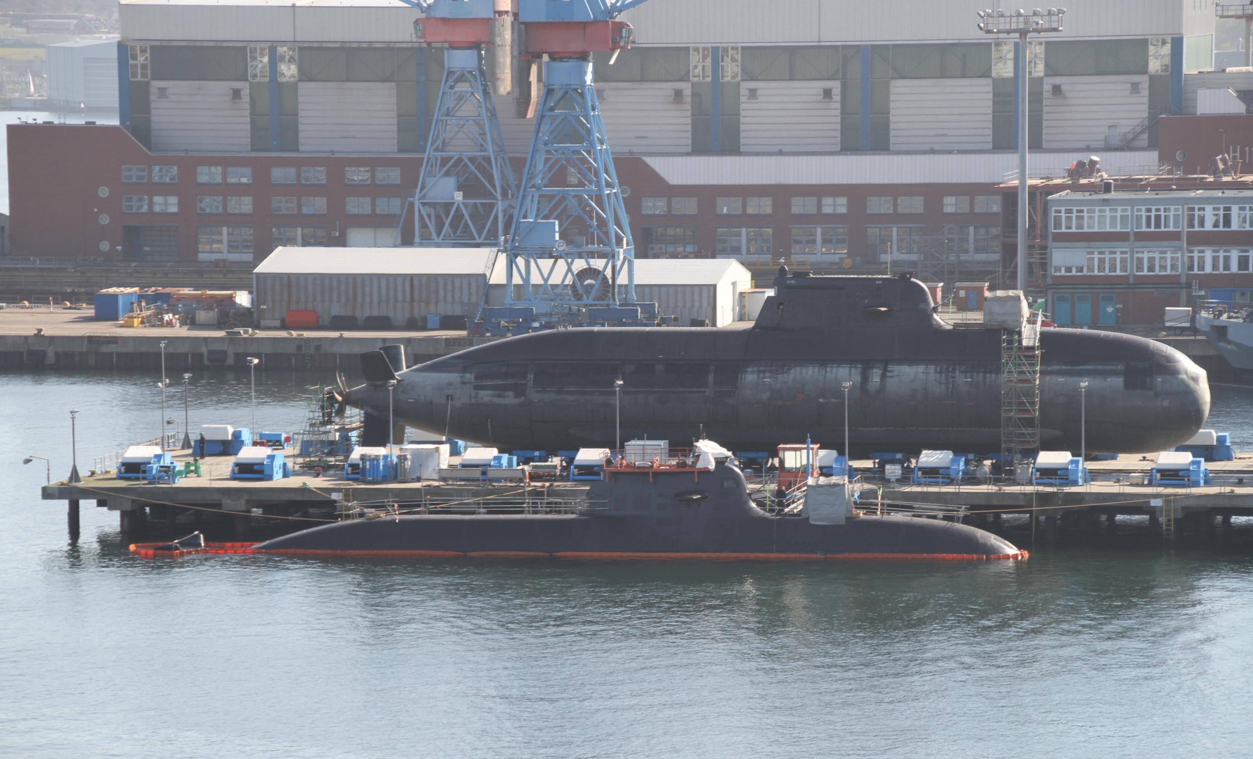 Image of the HDW shipyard, a major naval shipyard in the city of Kiel - north Germany. This is an important constructor of submarines of NATO.